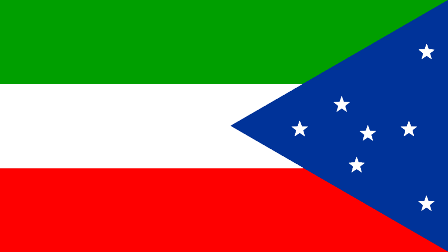 Flag of the Sidama Liberation Front.